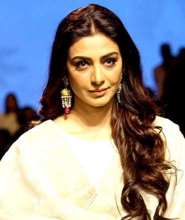 Tabu at Lakmee Fashion week